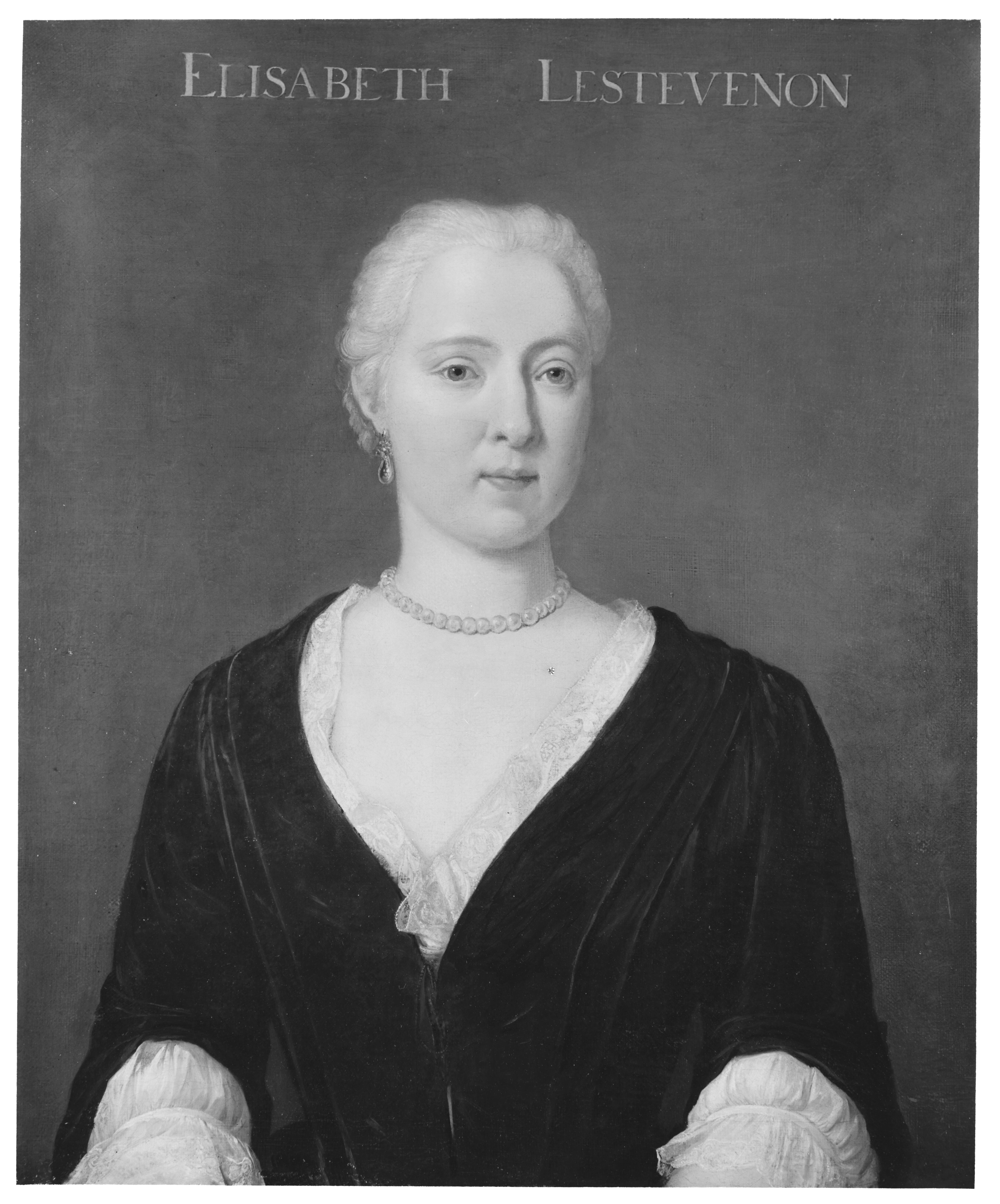 Elisabeth Lestevenon (1716-1766)